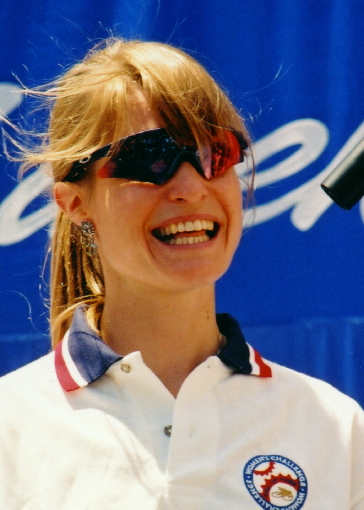 Rebecca Twigg being presented at a special awards ceremony following the completion of the final stage of the 1999 Women's Challenge race. In addition to her other accomplishments, Twigg won the first 3 editions of the Women's Challenge.